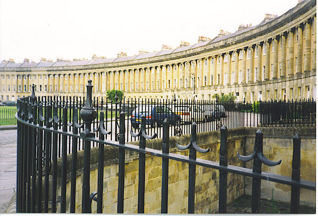 Royal Crescent. Bath's architectural gem - Georgian houses (1767-75) by Wood.